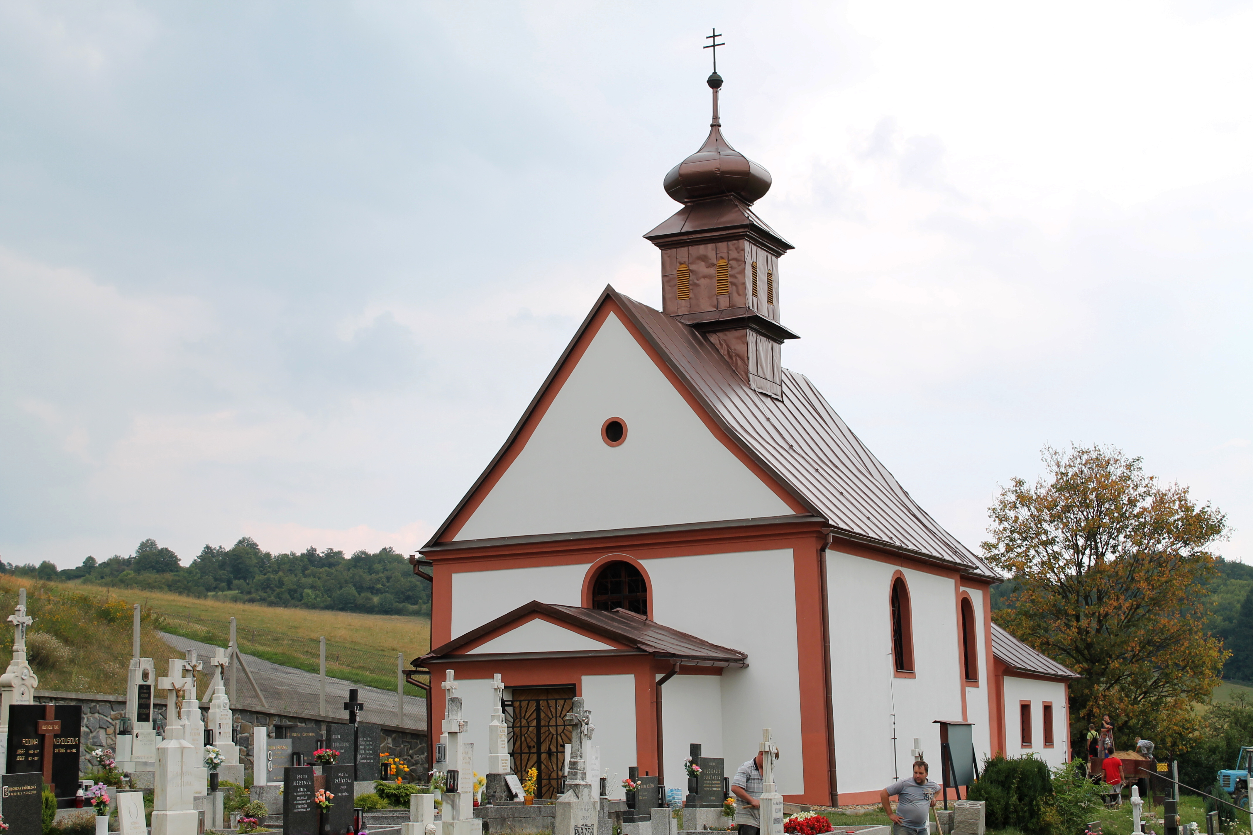 Church of Saint Stanislaus, Osiky, Brno-Country District, Czech Republic